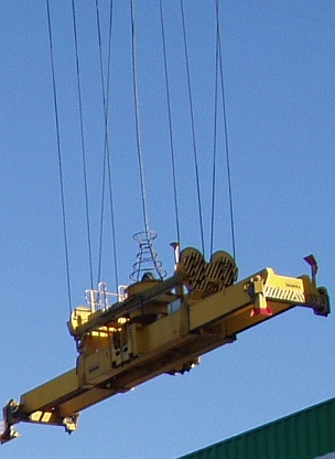 Container spreader